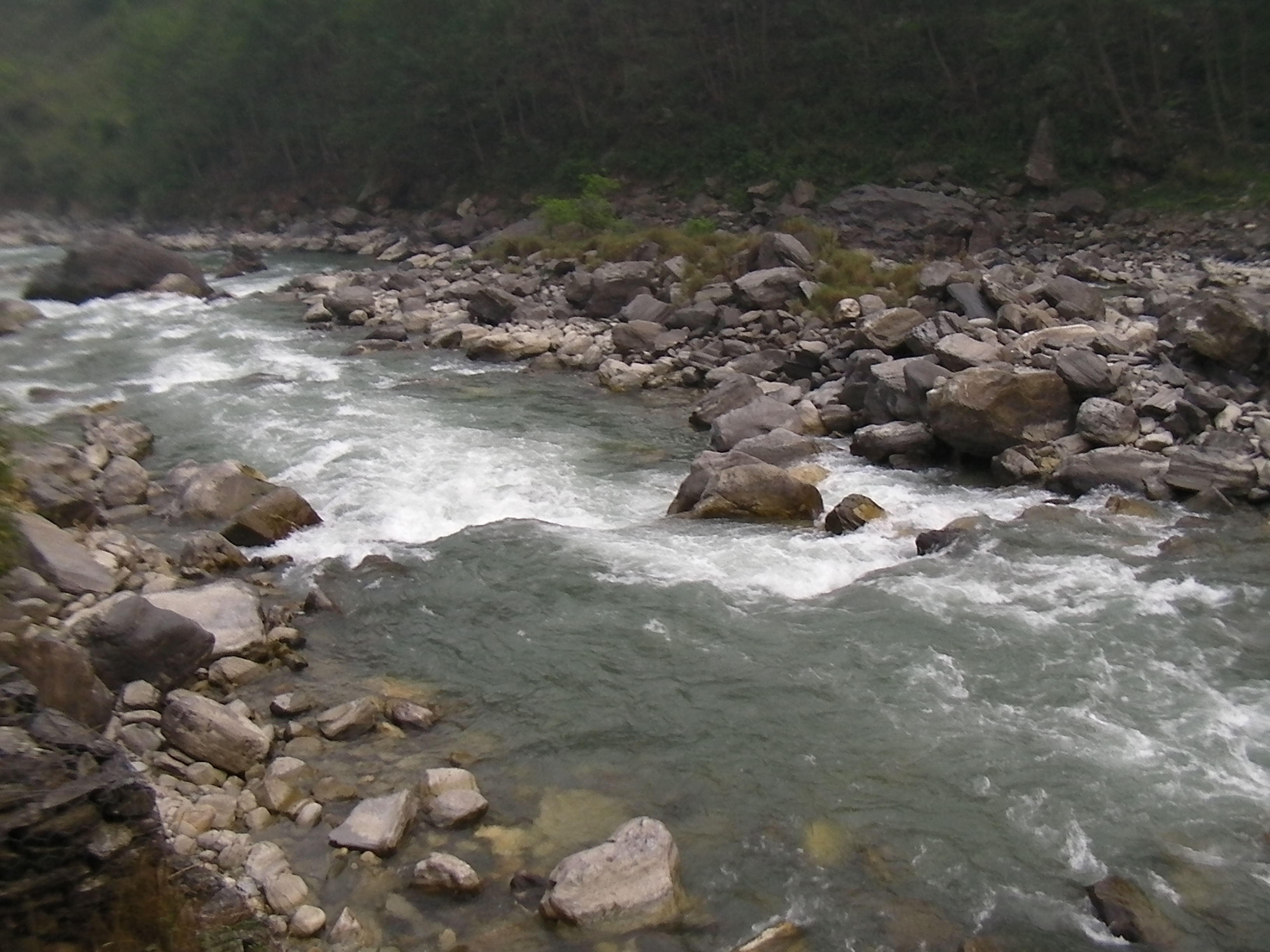 The Bhote Kosi (or Bhote Khosi) river in Nepal as seen from Borderlands camp near Tibet, late in the dry season (early April). Elevation 1010 meters.